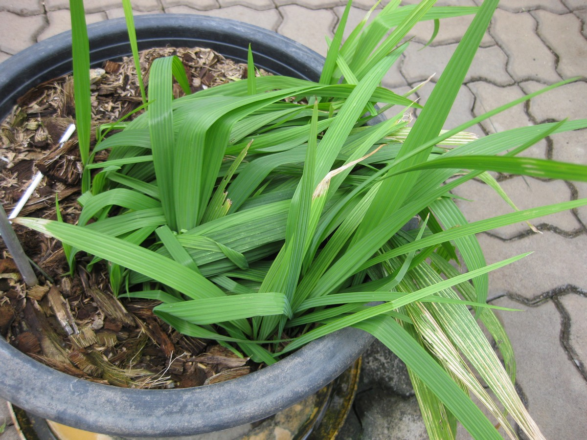 Photographed at the Queen Sirikit Botanic Garden (Chiang Mai Province, Thailand) in March